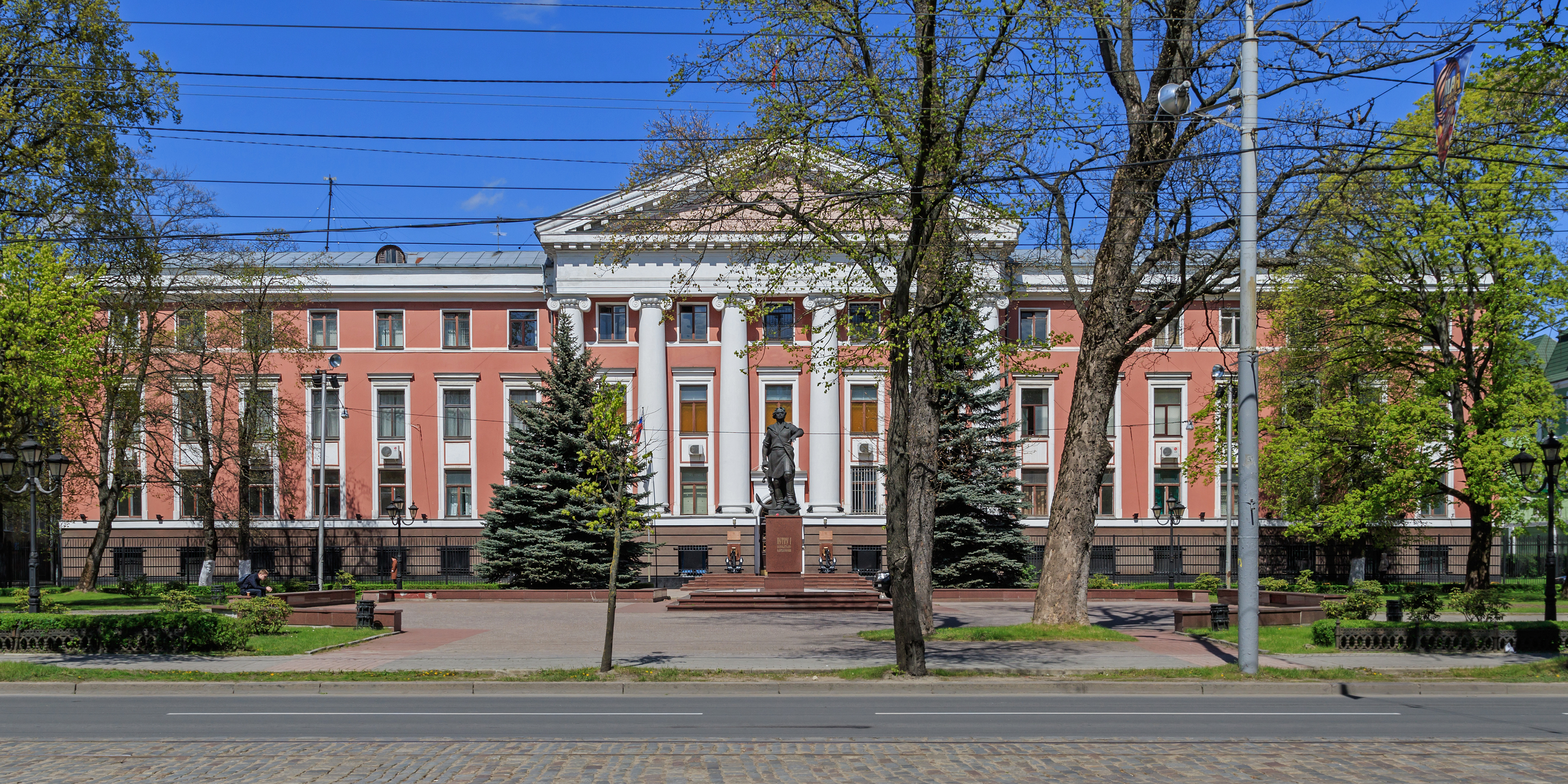 Building of the Baltic Fleet headquarters in Kaliningrad formerly Königsberg, Kaliningrad Oblast (Russia).